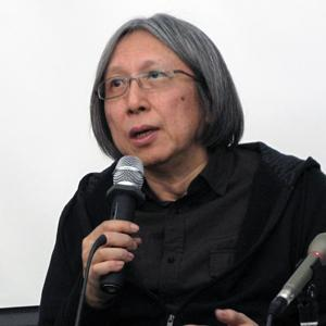 Chinese Chenguanzhong